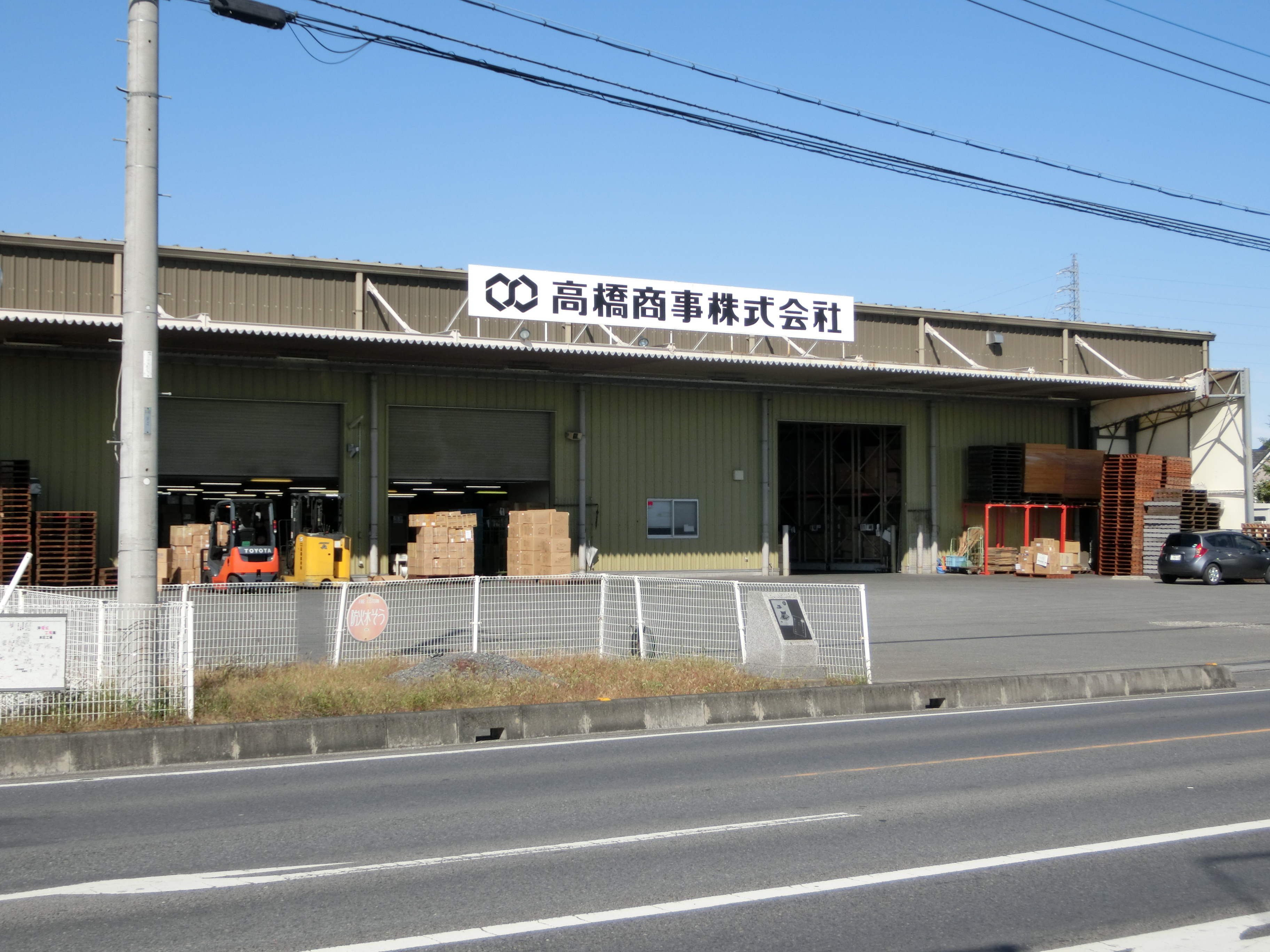 TAKAHASHI Co.,Ltd Head Office (Honjo)